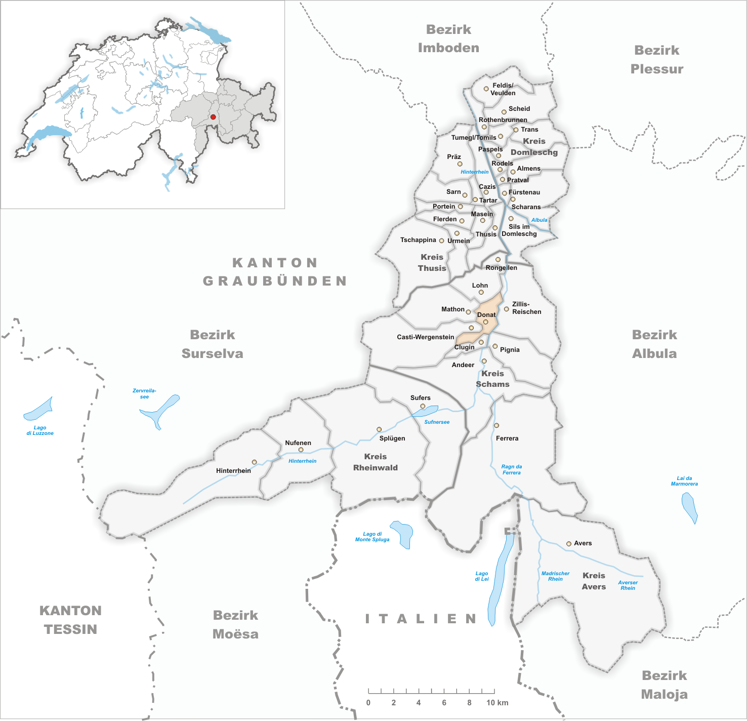 Municipality Donat